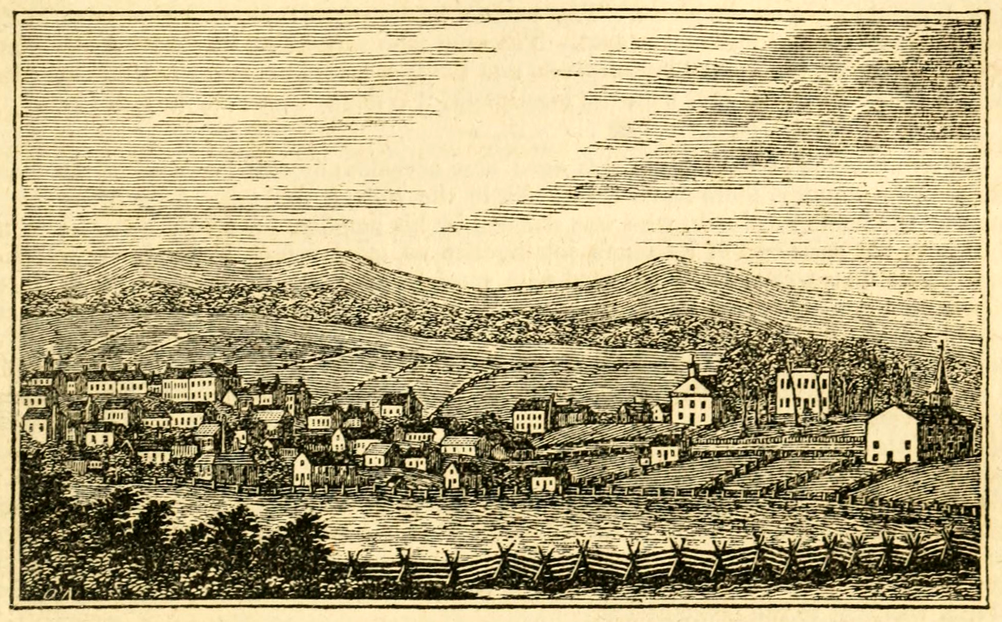 "Abingdon", an engraving of Abingdon, Virginia, from Henry Howe's Historical Collections of Virginia (1845)